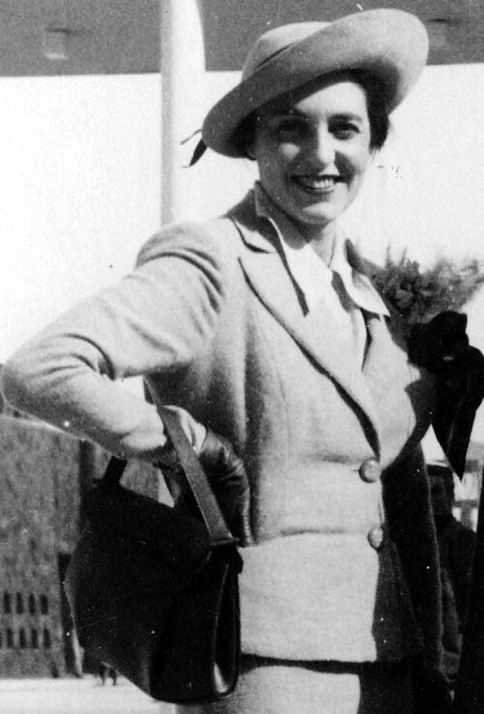 Benedetta Cappa